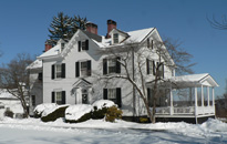 Elliott–Buckley House